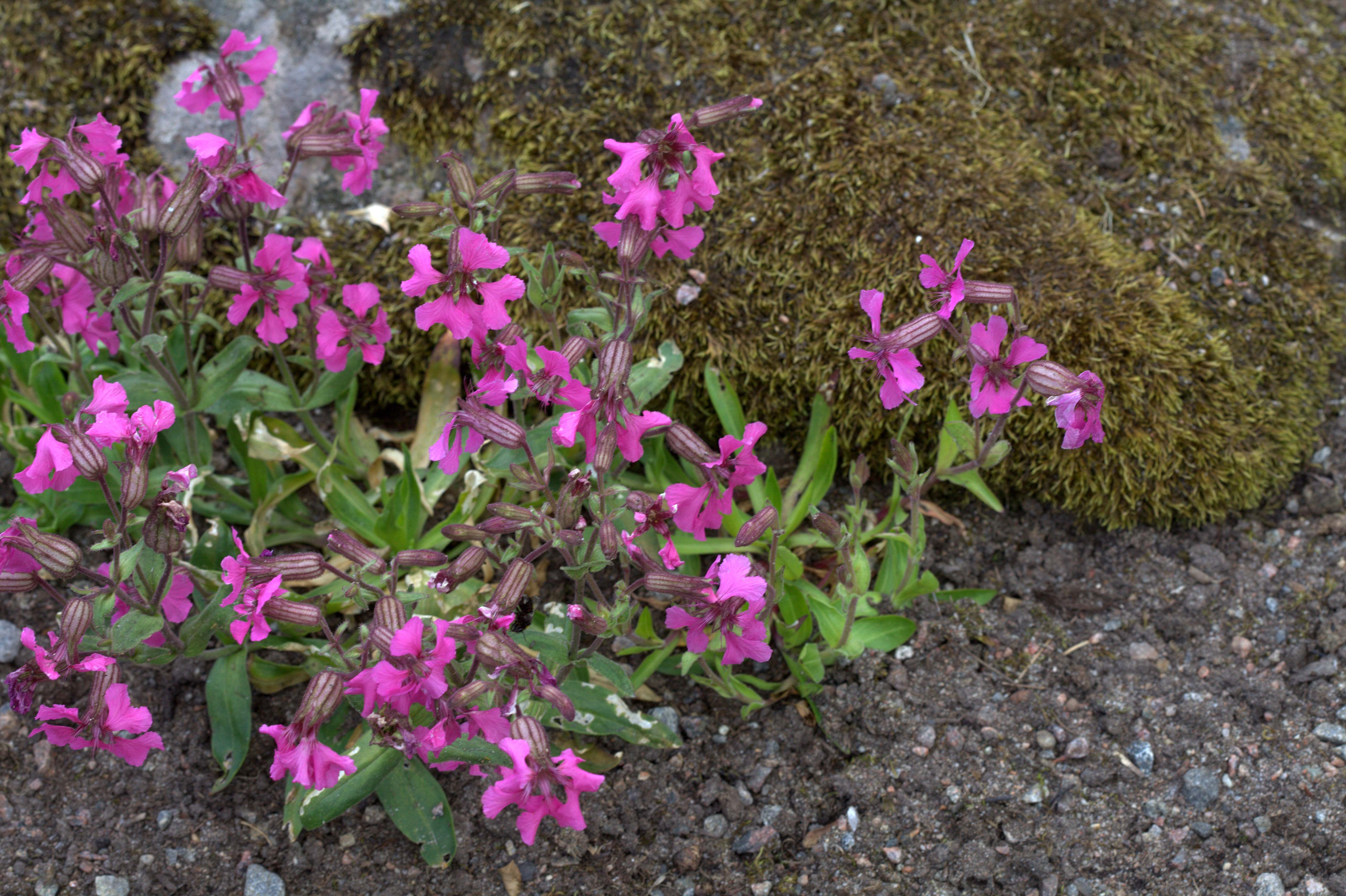 Photo taken at Gothenburg botanical garden. Specimen id: 2013-694 s G Seed collected in 2013 from a garden (Würzburg).